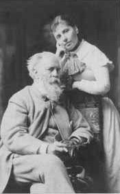 The painter Gustav Richter and his wife Cornelie, née Meyerbeer, in his atelier. About 1880.